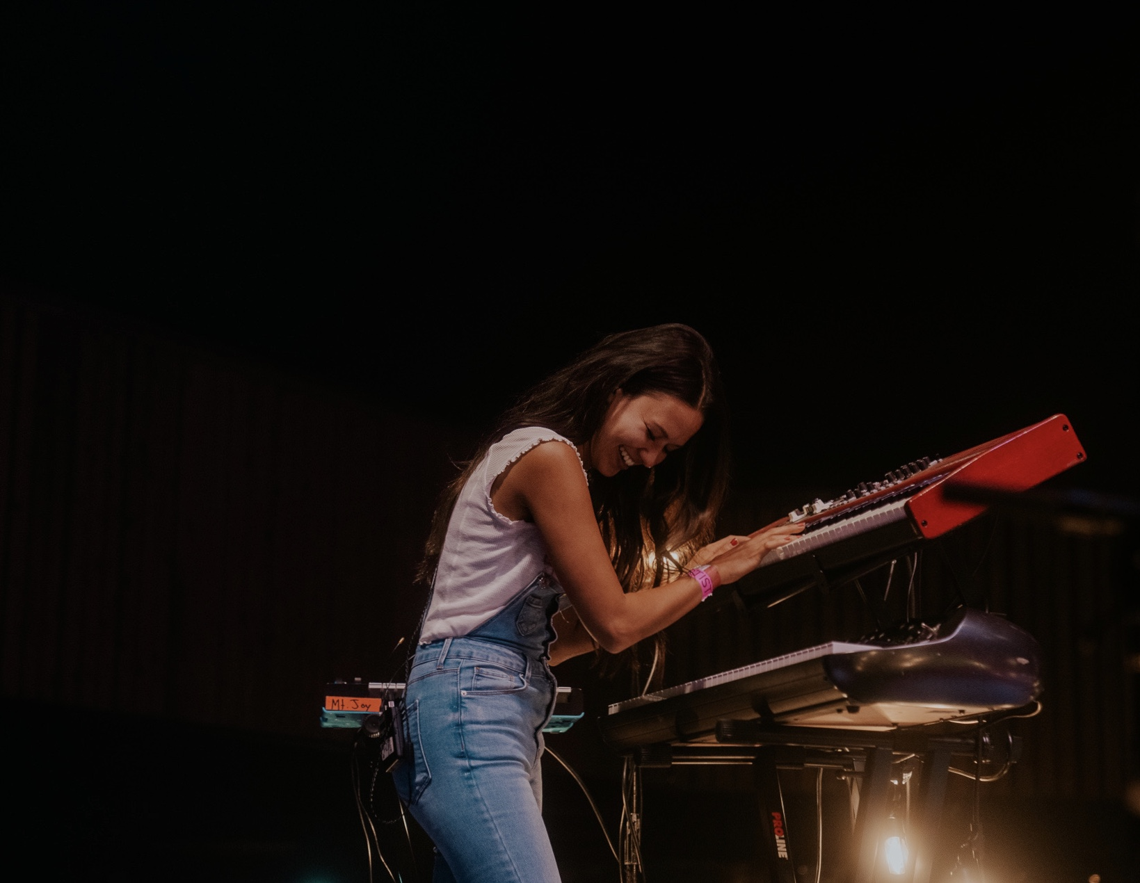 Jackie Miclau of Mt. Joy playing the keyboard